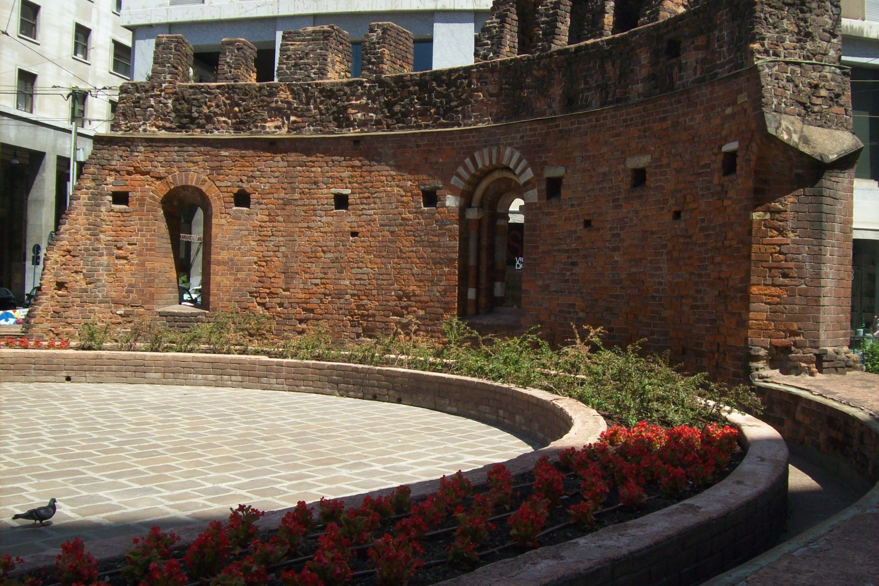 San Giovanni in Conca - Milan - Missori square - 01